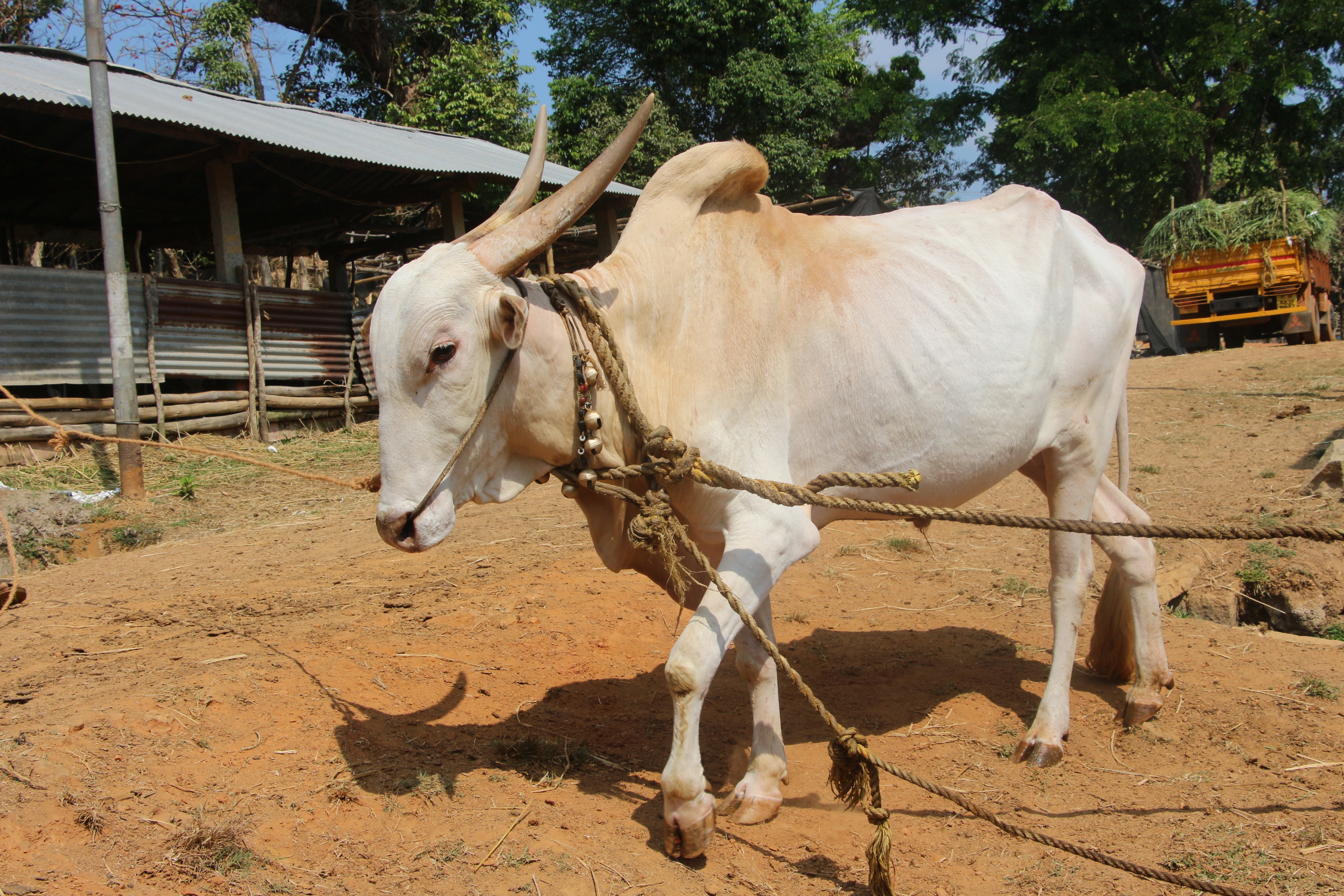 Indian cow breed Khilari ಕನ್ನಡ: ಭಾರತೀಯ ಗೋತಳಿ ಖಿಲಾರಿ